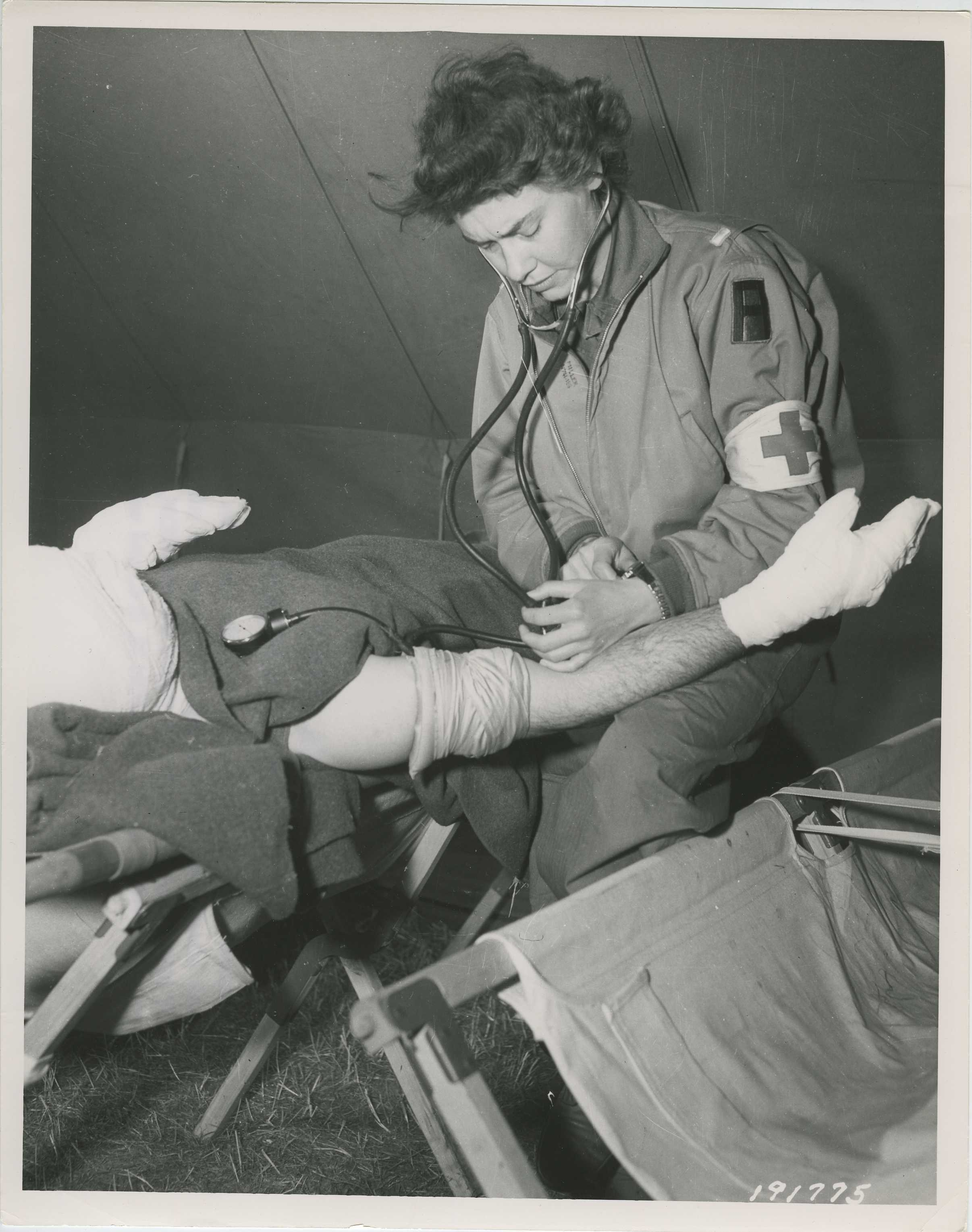 Taking blood pressure (SC 191775), National Museum of Health and Medicine Description: "1st Lt. Lieutenant Miller, assigned to the shock ward, takes blood pressure reading of patient who is suffering from severe burns, somewhere in France. 2nd Evacuation Hospital, France." Date: 24 July 1944 Photo ID: SC 191775 Source collection: OHA 343: U.S. Army Signal Corps Photographs Repository: National Museum of Health and Medicine, Otis Historical Archives Rights: No known restrictions upon publication, physical copy retained by National Museum of Health and Medicine. Publication and high resolution image requests should be directed to the NMHM